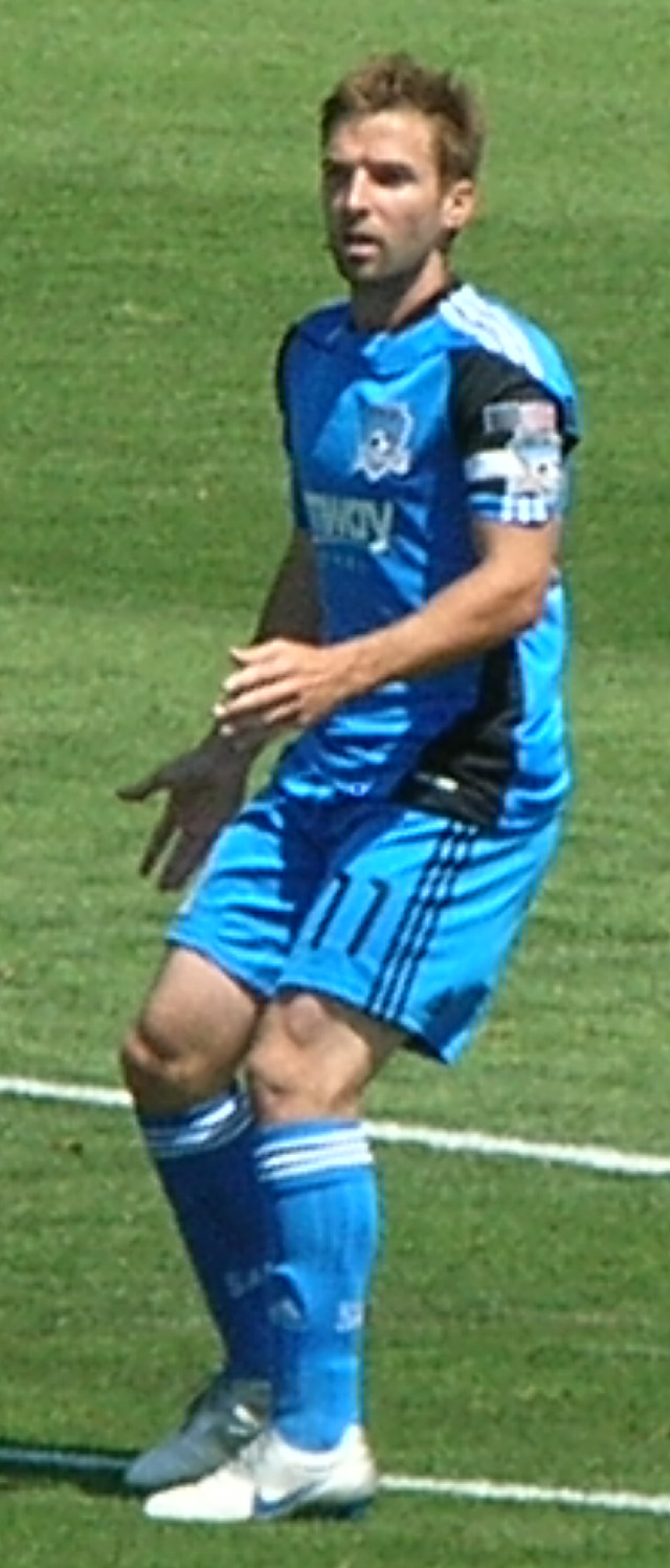 San Jose Earthquakes midfielder Bobby Convey at a home game against the LA Galaxy. The Earthquakes won 1-0.